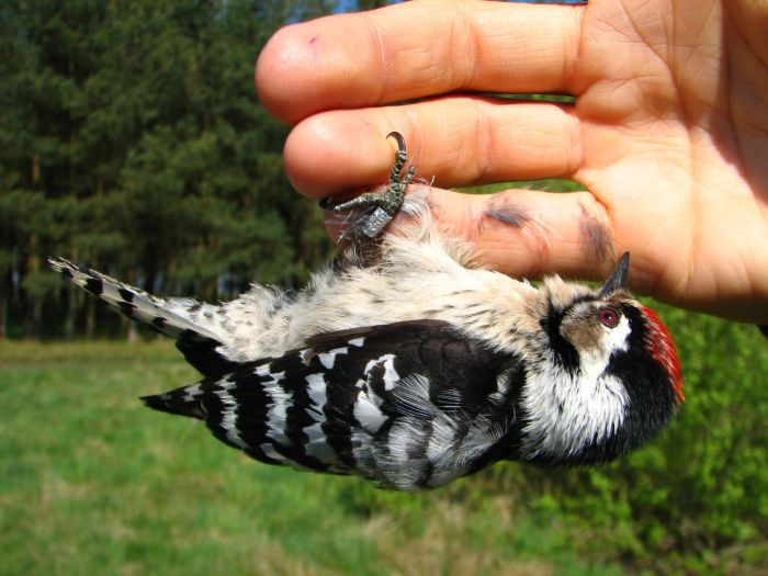 Lesser Spotted Woodpecker (Picoides minor, Dendrocopos minor)